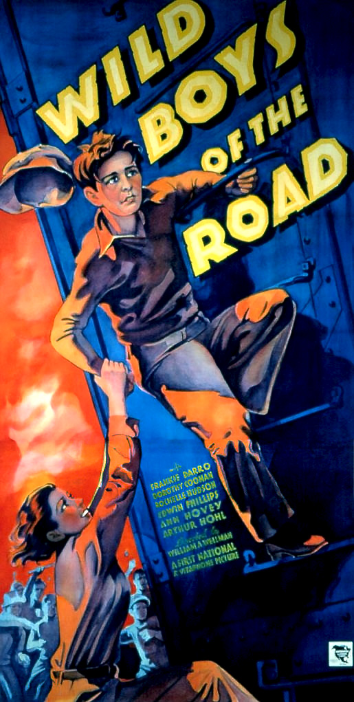 Three-sheet theatrical release poster for the 1933 film Wild Boys of the Road.